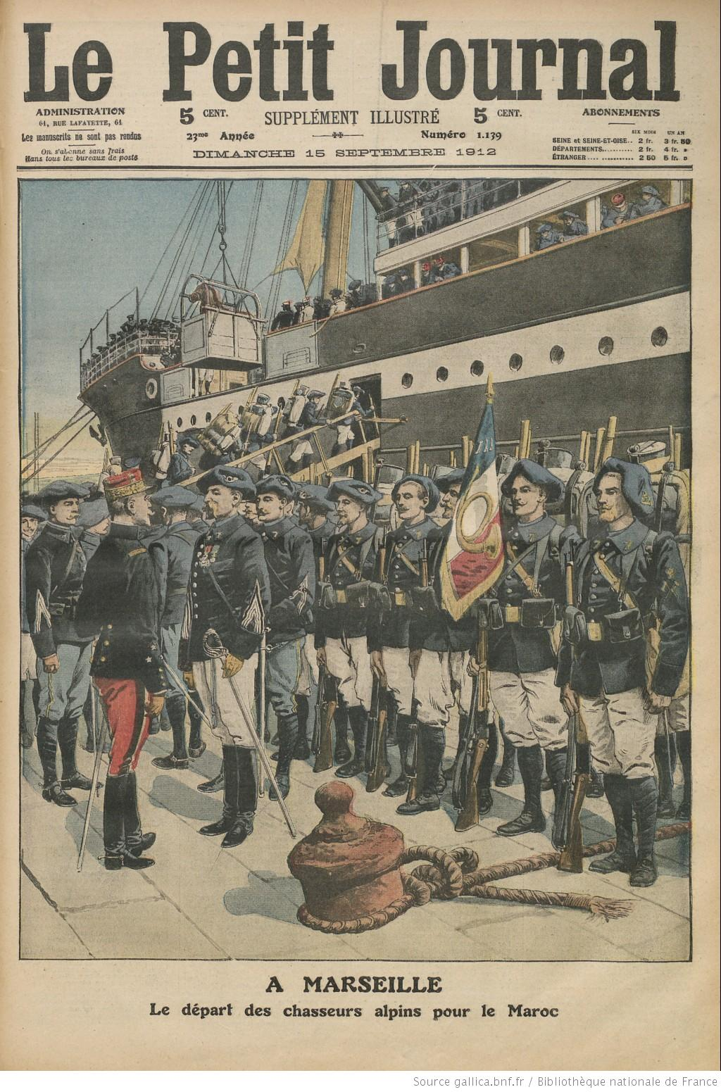 "A Marseille, le depart des chasseurs alpins pour le Maroc" ("At Marseille, the departure of the Chasseurs Alpins (Alpine Hunters) for Morocco"), illustration published in Le Petit Journal, No. 1139, 15 September 1912